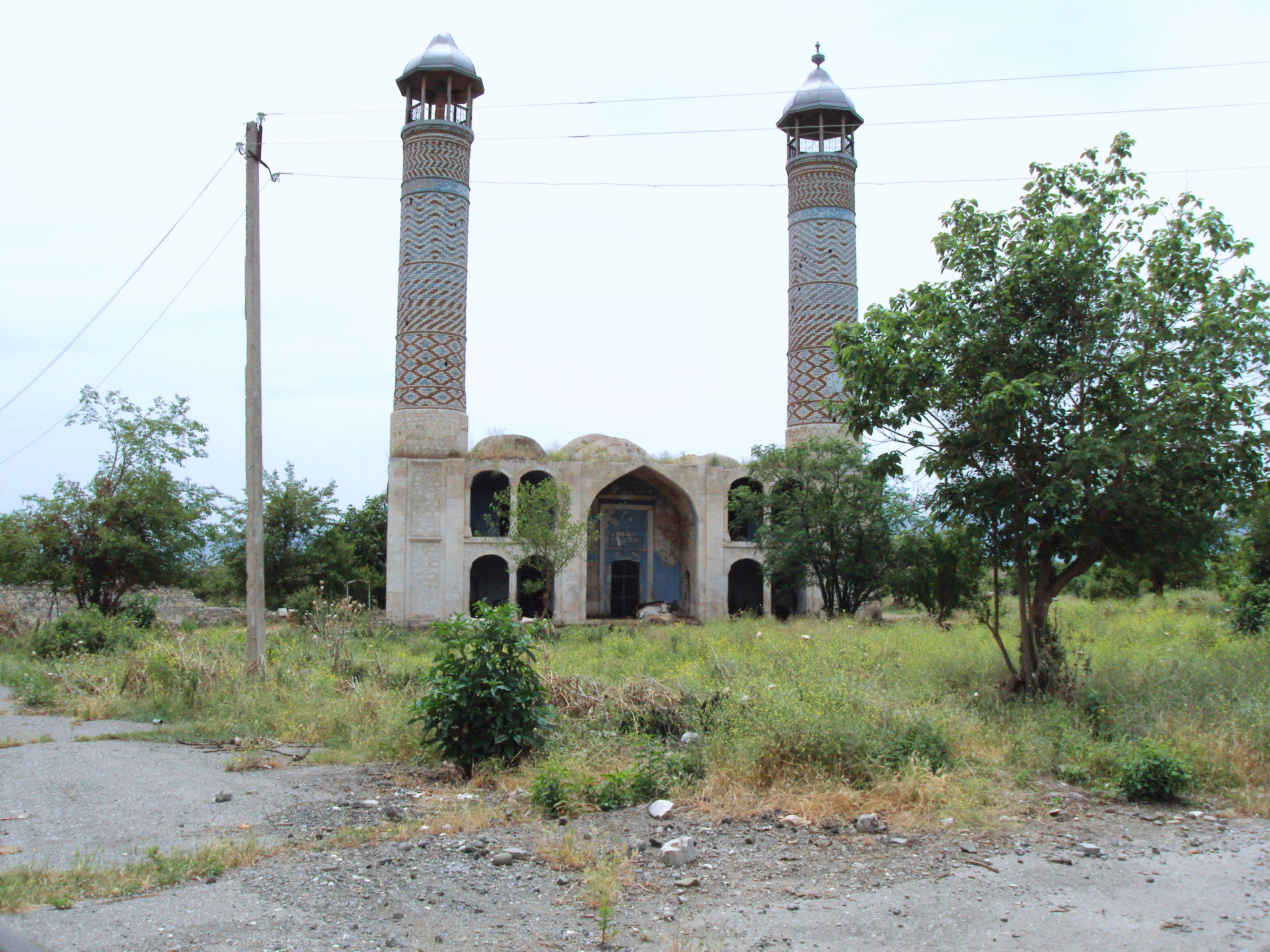 Agdam Mosque. Built by Azerbaijani architect Karbalayi Safikhan Karabakhi in 1868.